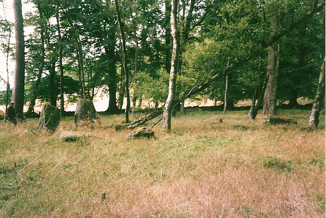 The Stone Circle at Bandirran A rather nice Stone Circle, some storm damage to the trees.